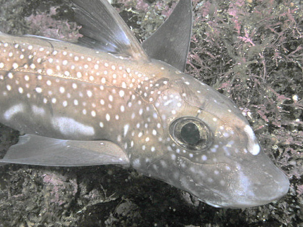 Ratfish, Bischoff Island, British Columbia, Canada. Image taken by Clark Anderson/Aquaimages.